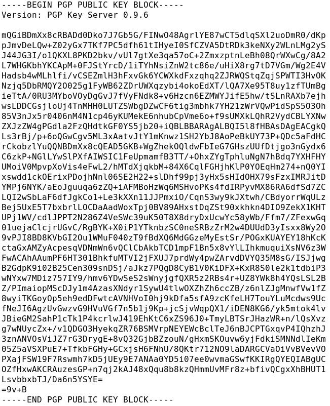 Public key (cryptography)